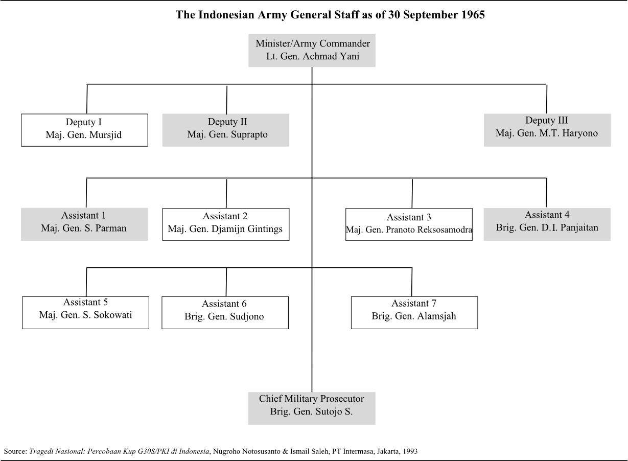 The Indonesian Army General Staff immediately before the G30S incident